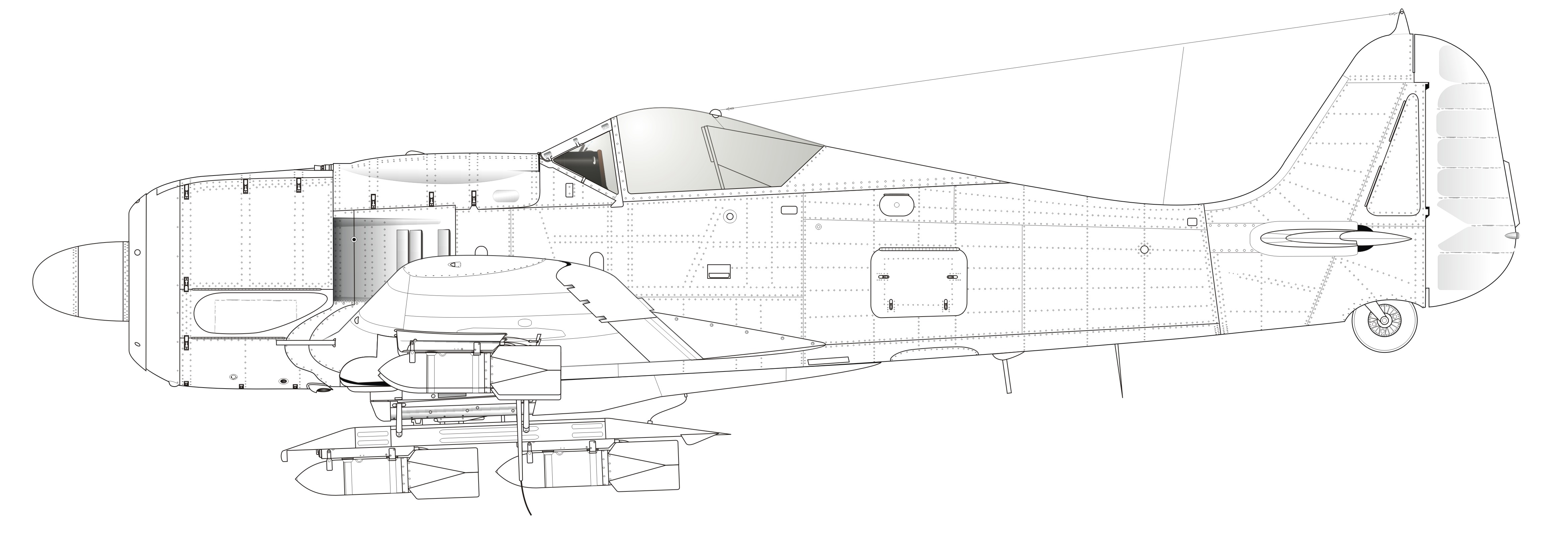 Focke Wulf Fw 190 F-8 with 8 x SC 50 bombs (50 kg) on ER 4